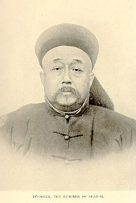 Description 山西巡抚毓贤Date 5 February 2010Source Unknown author 山西巡抚毓贤